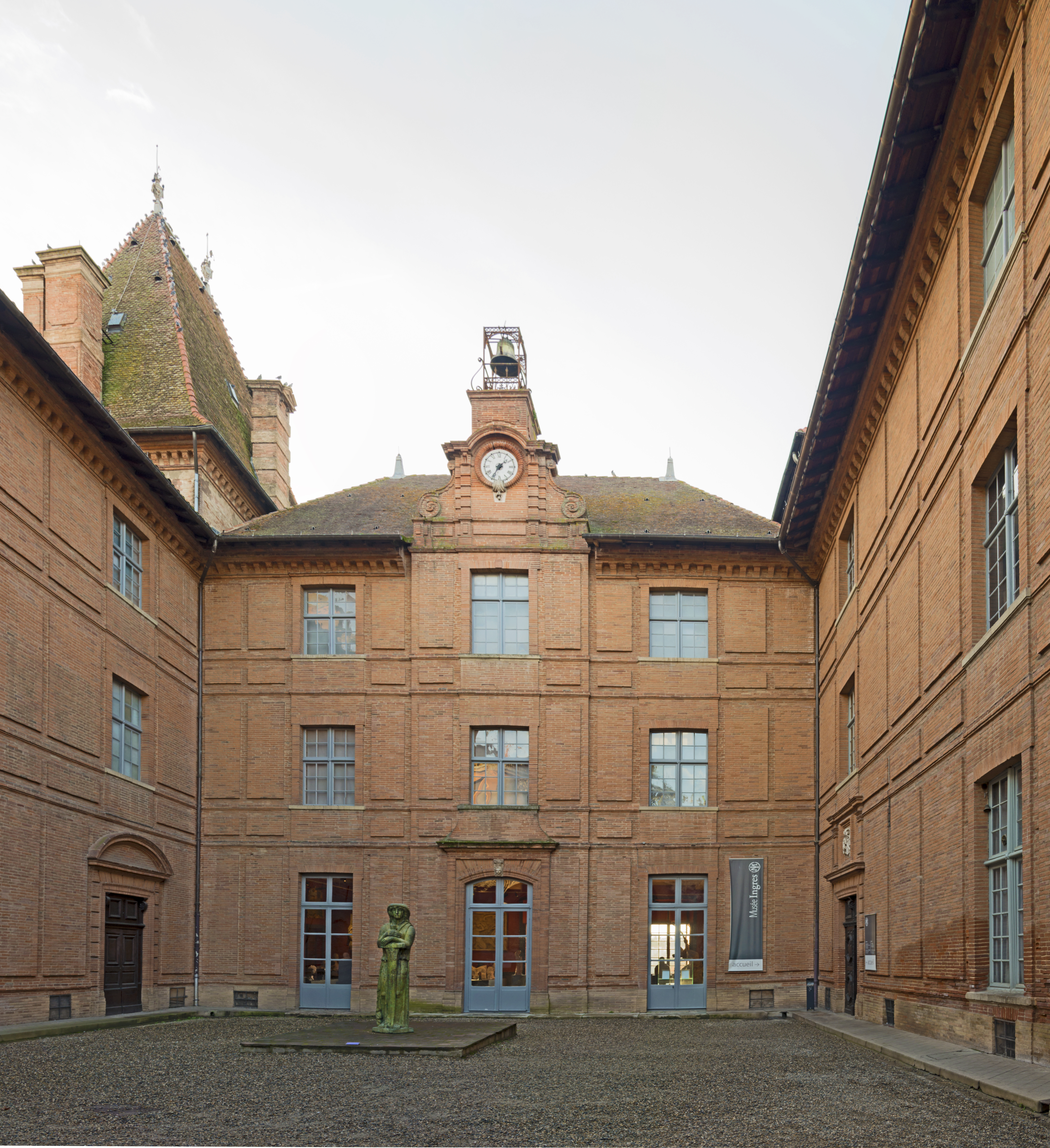 Musée Ingres, Montauban, Tarn et Garonne, France. Courtyard.